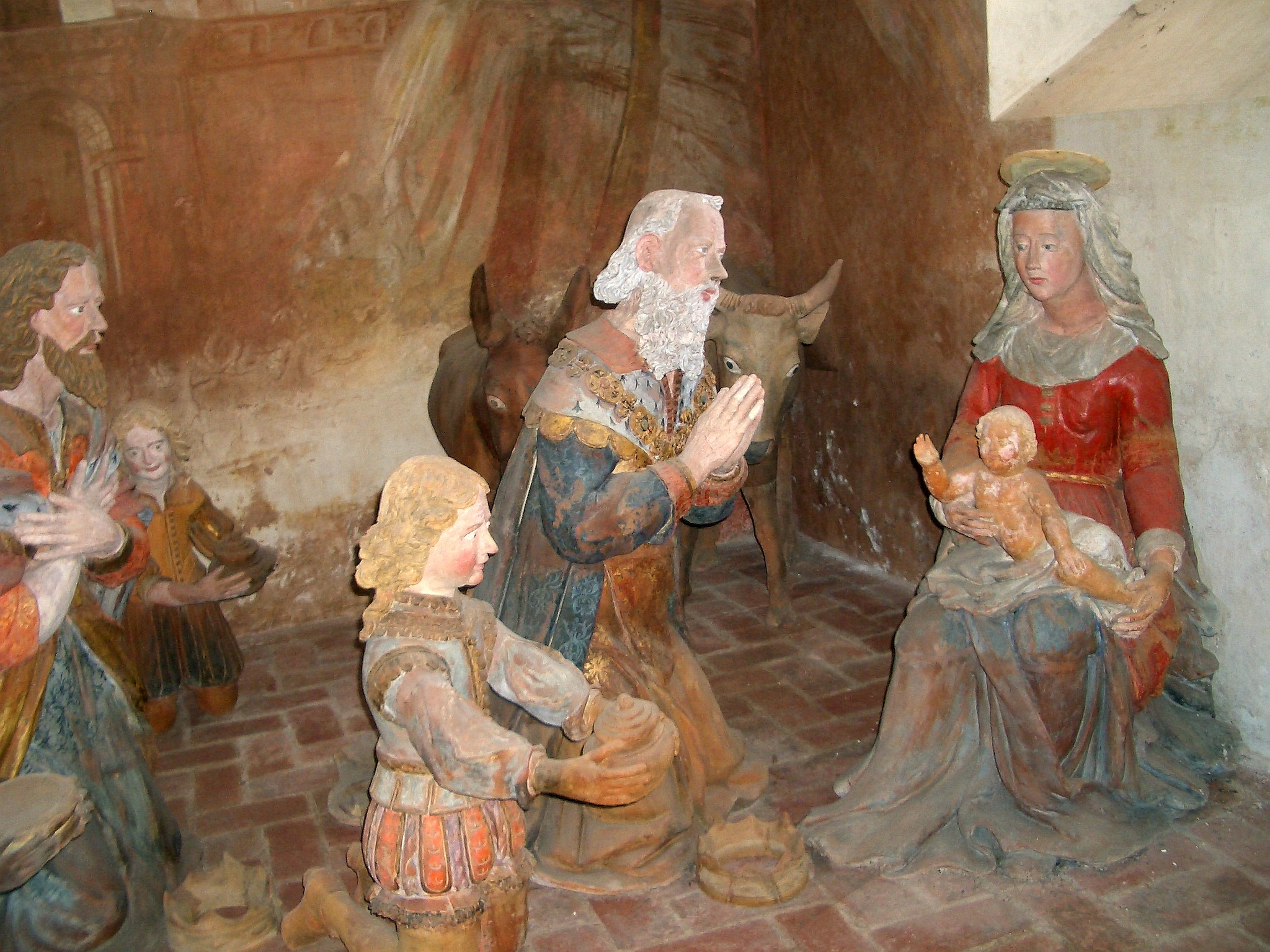 Sacro Monte of Graglia, Chapel of The Magi Adoration, Graglia (Biella), Unknown sculptor, clay statues, XVII century